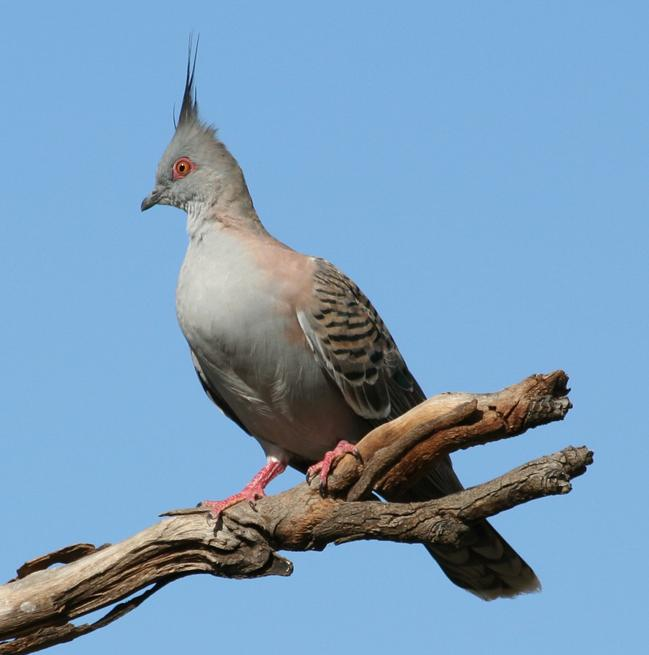 An image of Crested Dove (Ocyphaps lophotes).